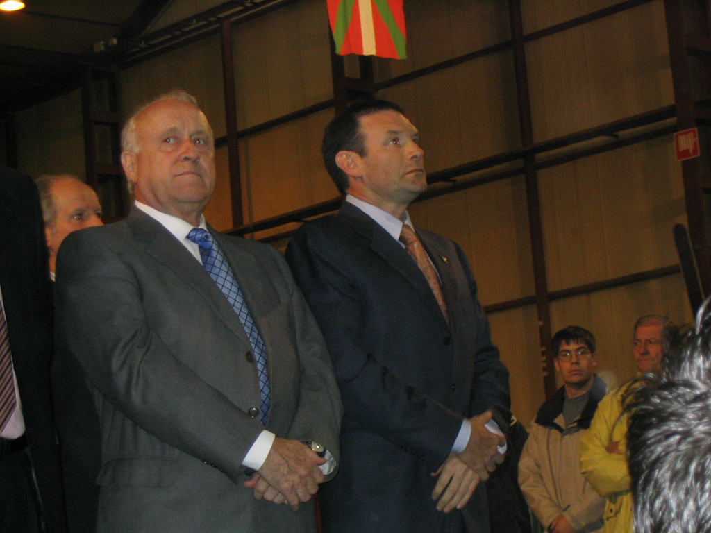 Xabier Arzalluz and J.J. Ibarretxe .Photo taken in 2003, Aberri Eguna (Day of the Homeland, on Easter Sunday).